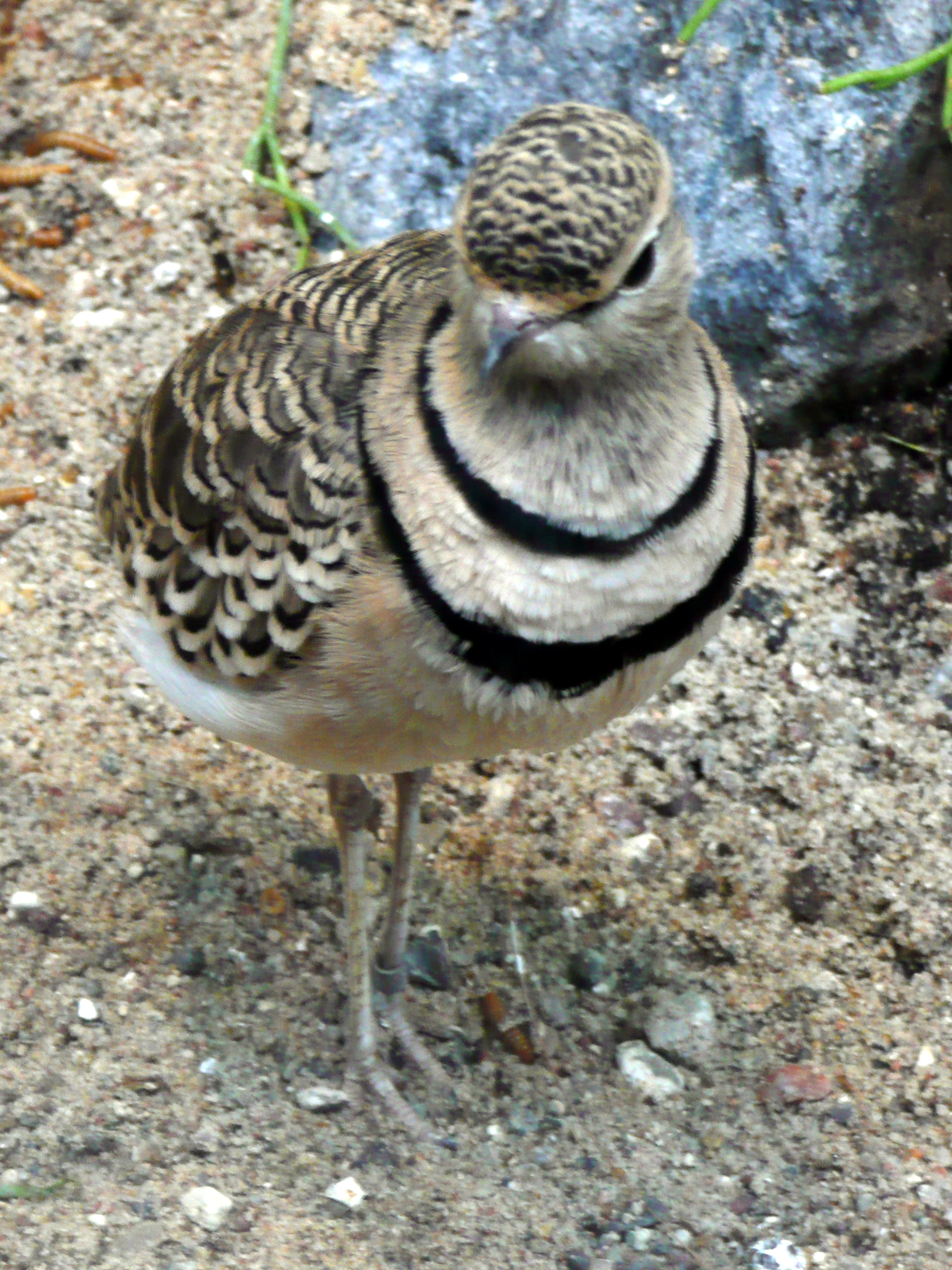 A Double-banded Courser in Tierpark Hagenbeck, Hamburg, Germany.